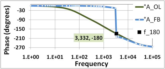 Bode phase plot for gain of feedback amplifier